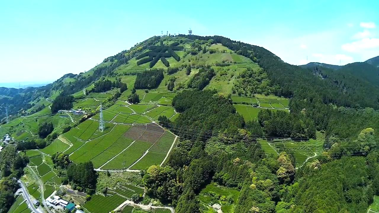 Aerial view of the east side of the Mount Awagatake (a.k.a. Mount Awa) in the border Kakegawa & Shimada, Shizuoka Prefecture, Japan.